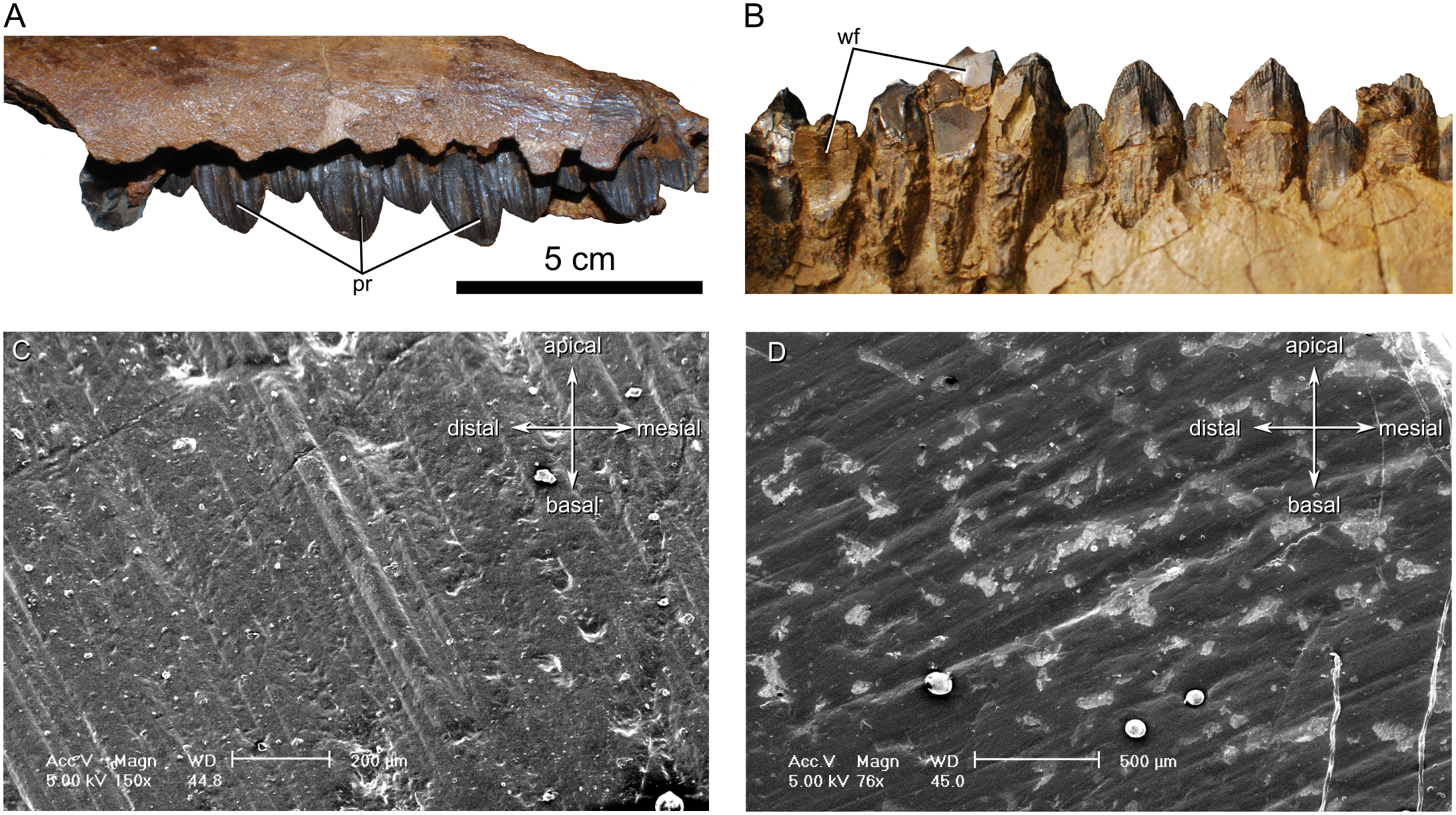 Teeth of Spiclypeus shipporum gen et sp. nov. (CMN 57081). (A) Left maxillary teeth in lateral view; (B) right dentary teeth in lateral view. (C) microwear on the 23rd right dentary tooth showing common dorsodistally-ventromesially oriented scratches; (D) microwear on the 13th right dentary tooth showing less common dorsomesially-ventrodistally oriented scratches.